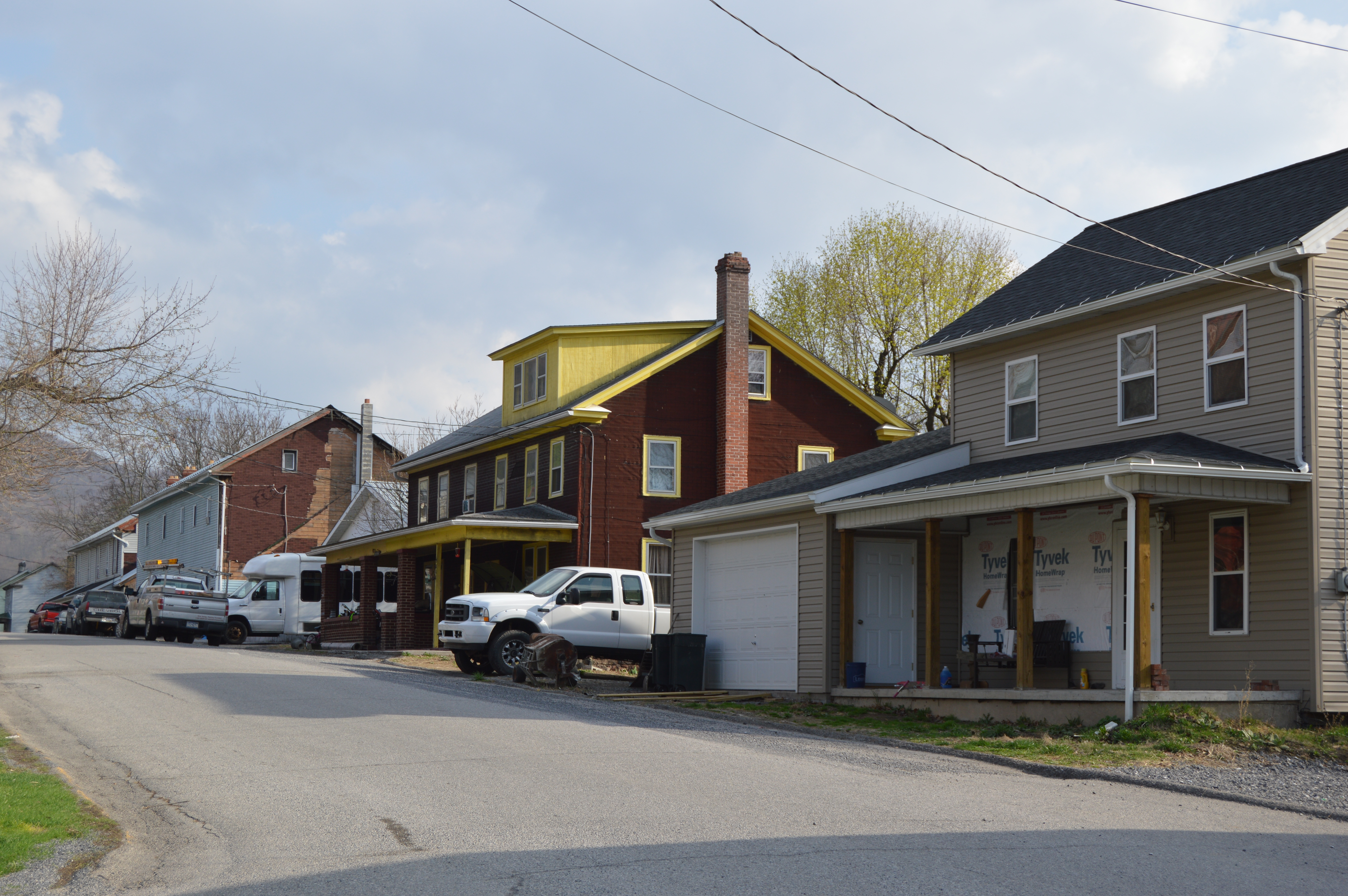 Buildings on the western side of Main Street, just south of the Mill Street intersection, in Mill Creek, Pennsylvania, United States.